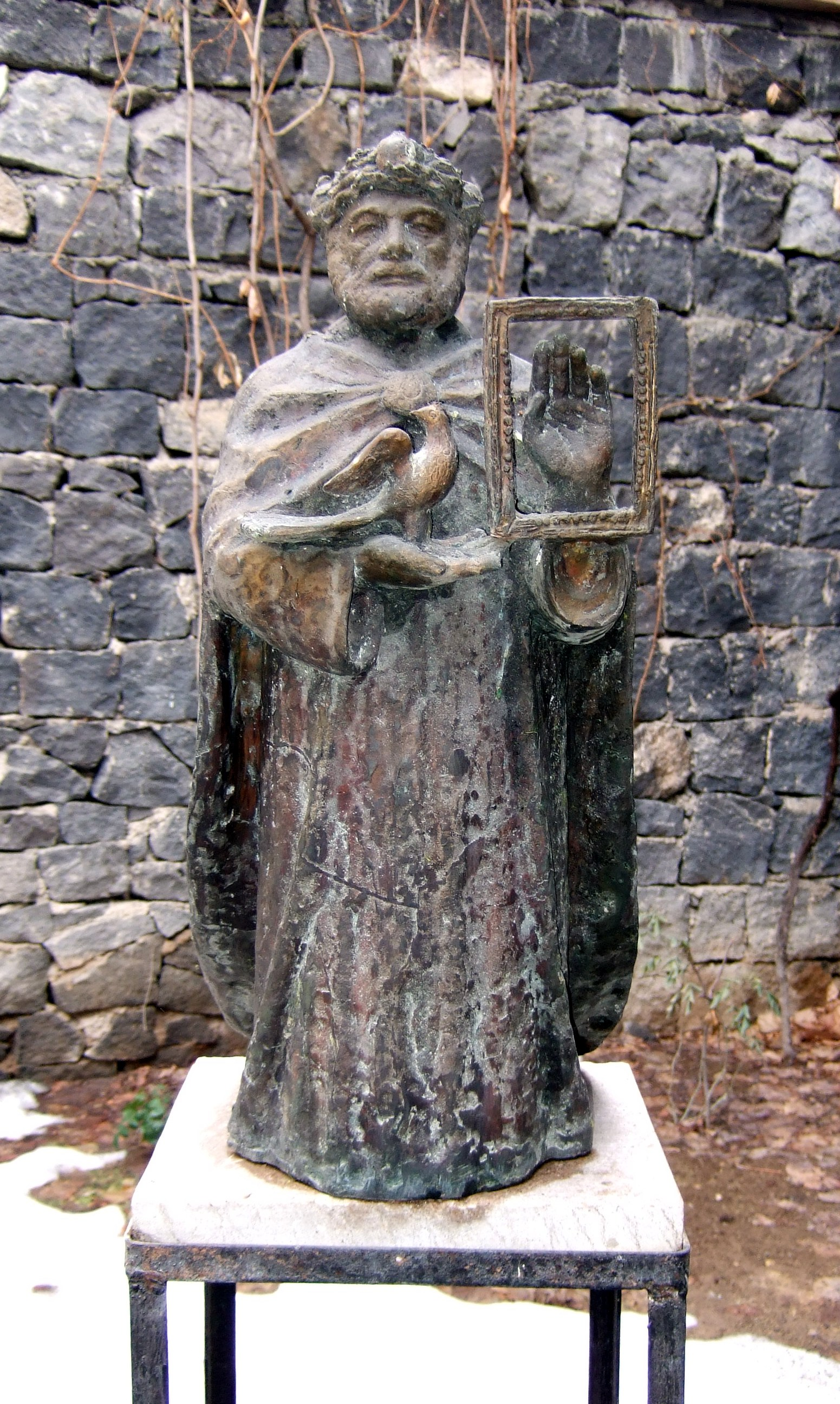 Sergey Parajanov's statue at the entrance of his House-Museum in Yerevan 6/176